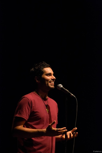 Luka Lesson - Arterium Creations